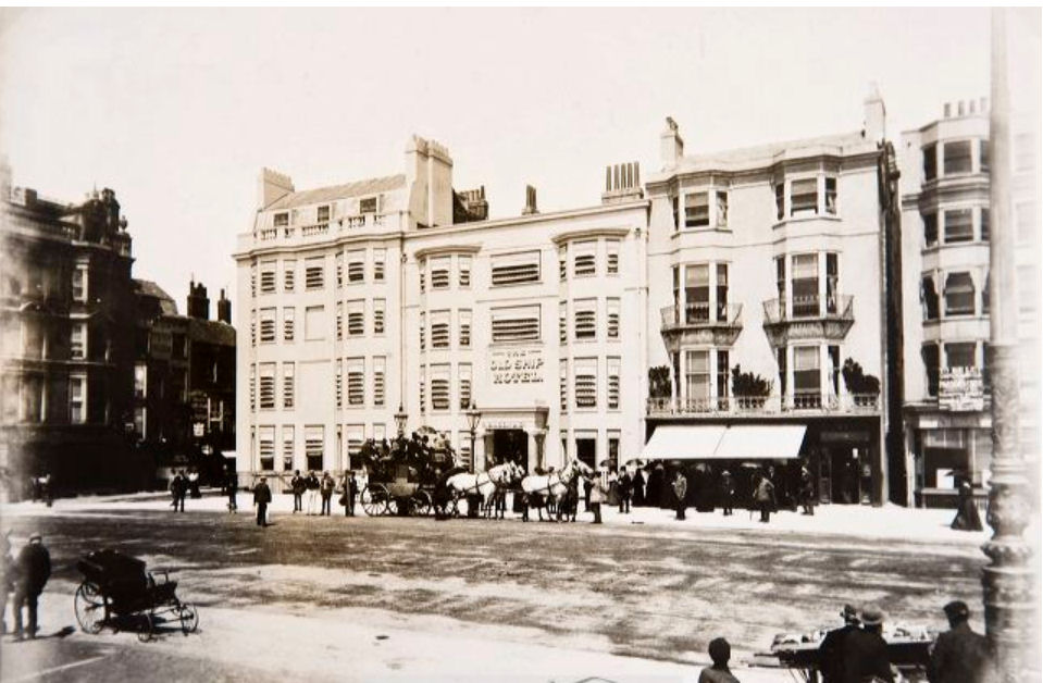 The Old Ship Hotel in Brighton, c1899.